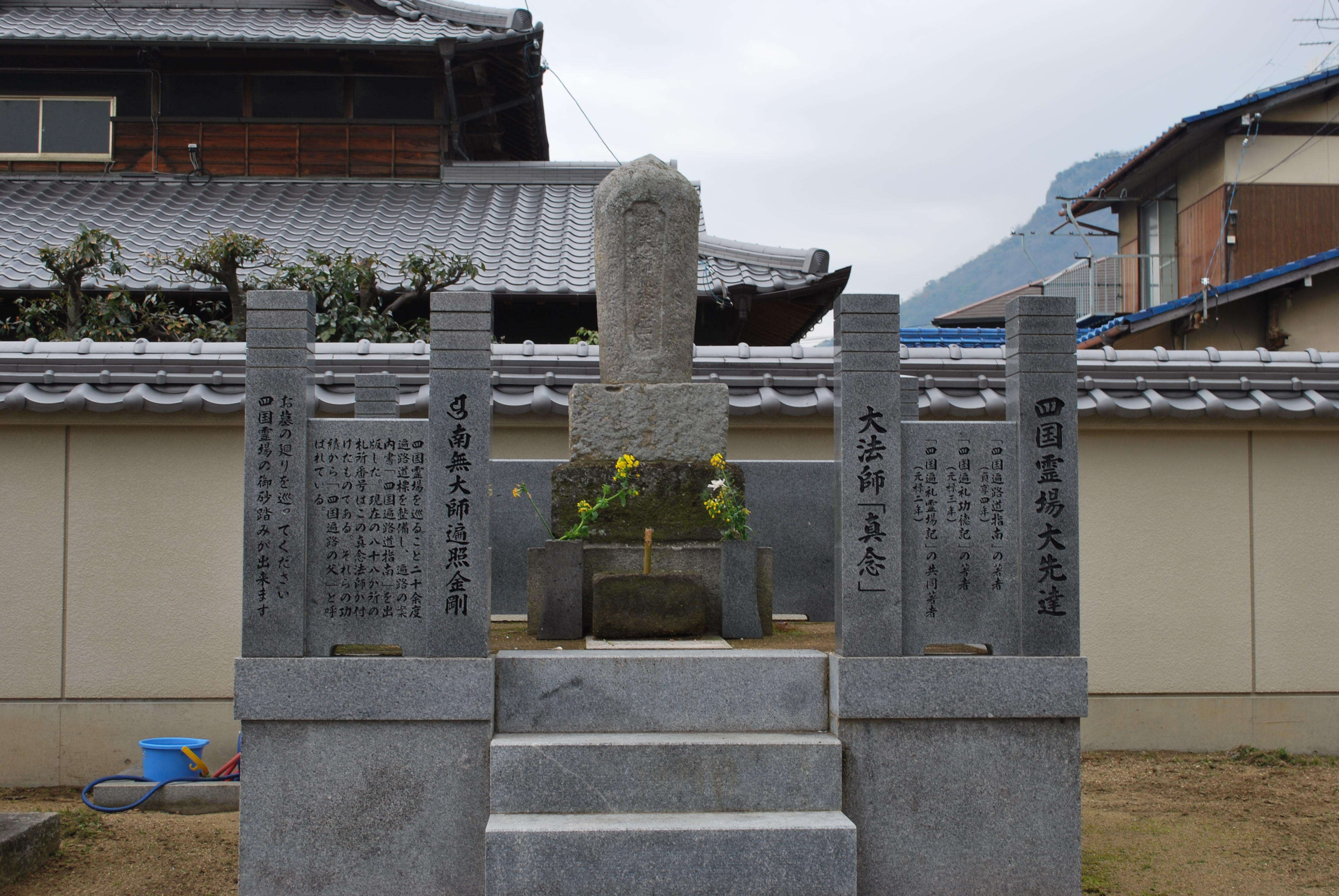 Grave of Shinnen, Suzaki-ji